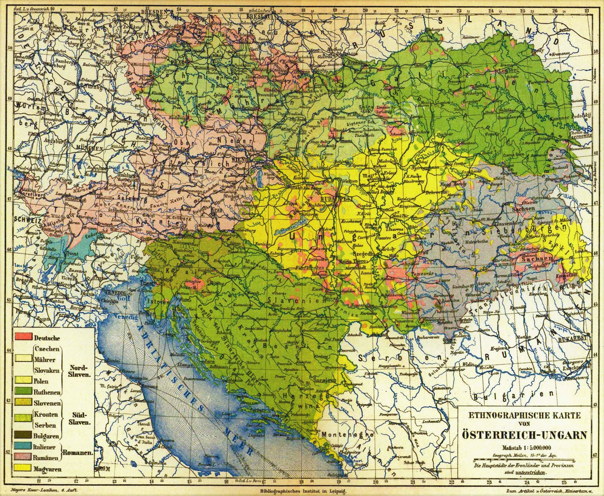 Ethnic distribution of Austria-Hungary in XIX century